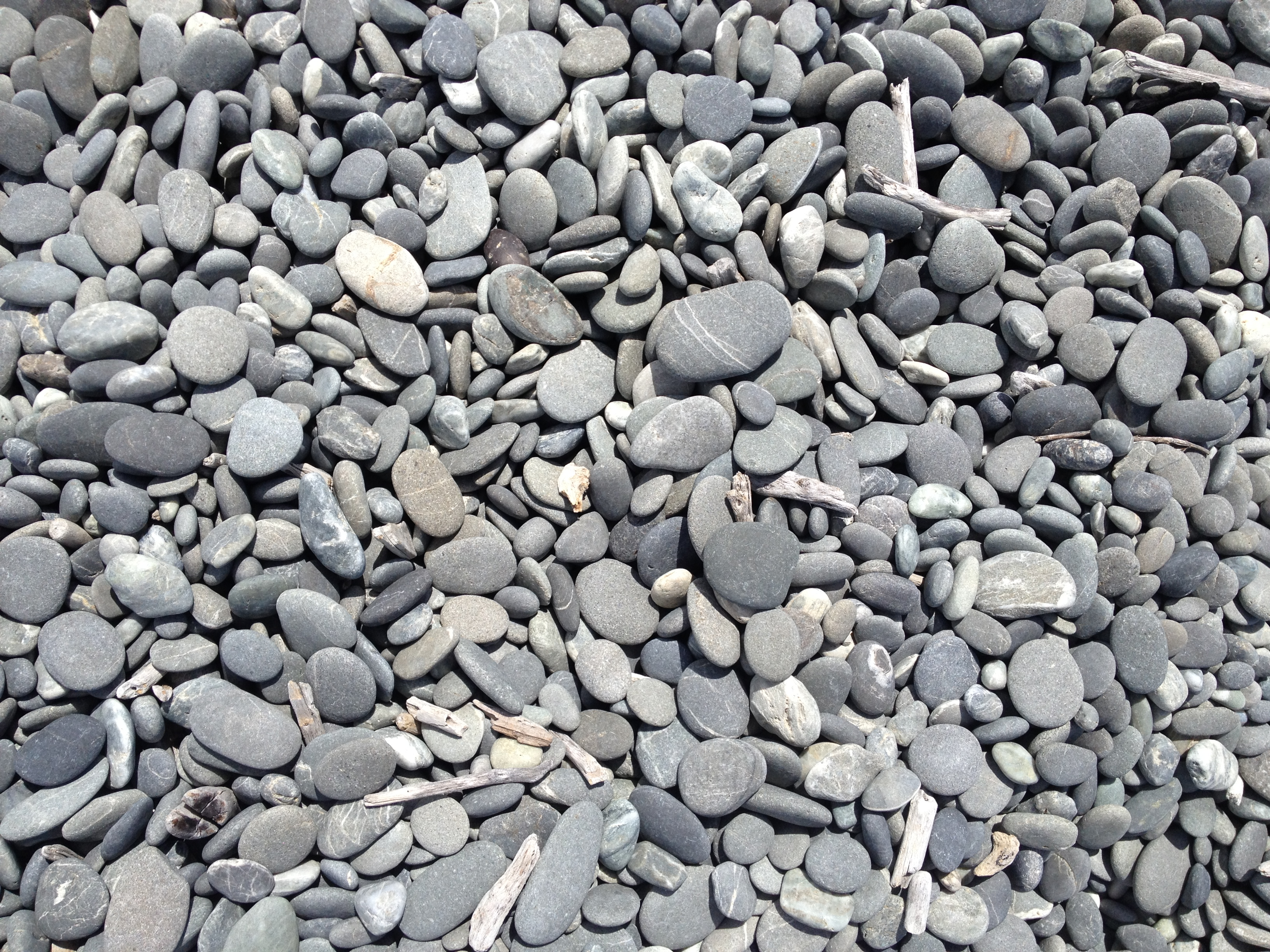 Pebbles at Birdling's Flat